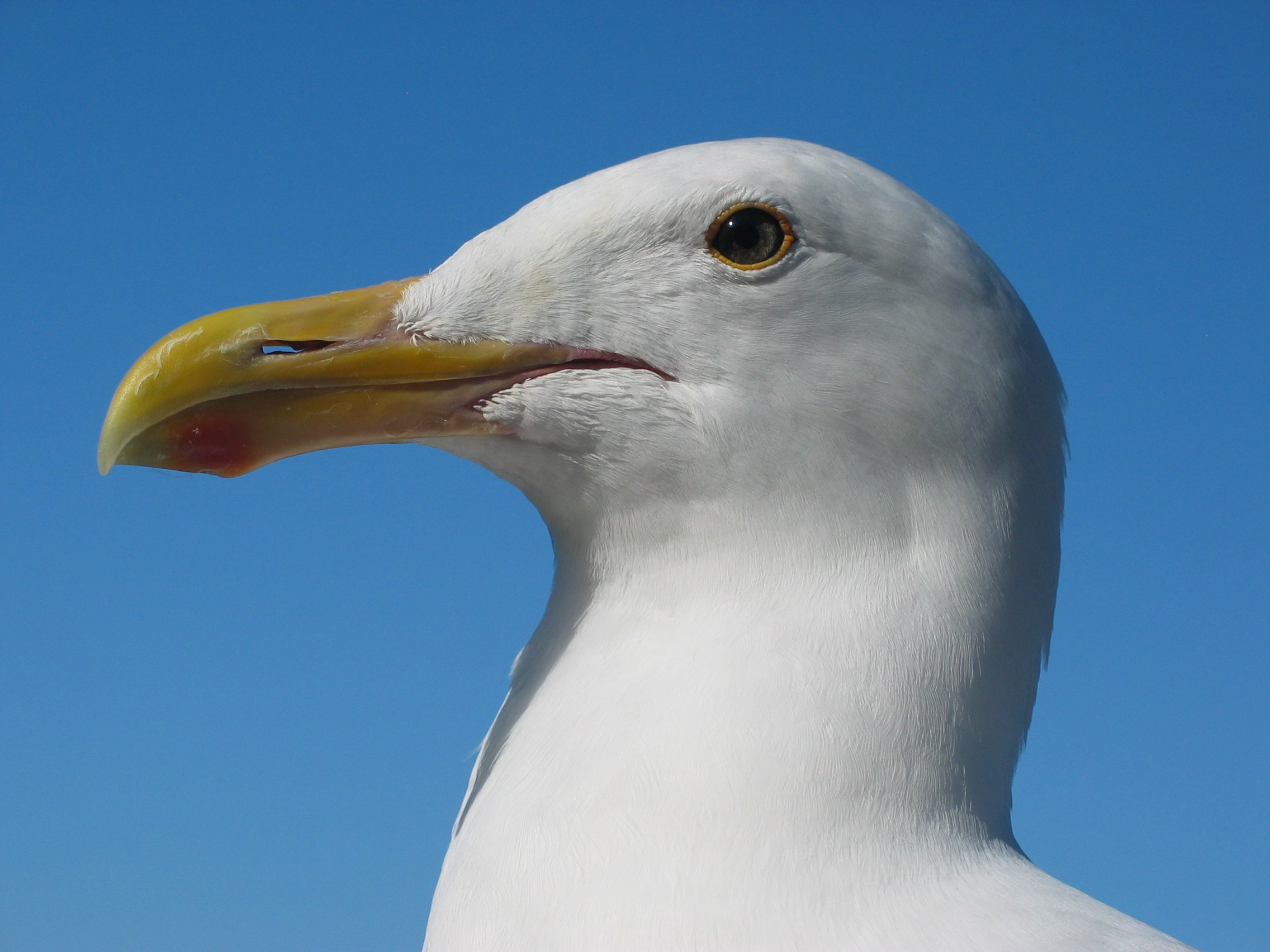 Western Gull (Larus occidentalis). Image taken in Monterrey, CA, USA by Dschwen.